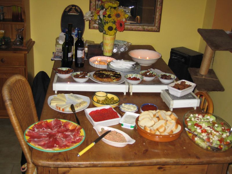 Johan made tapas to celebrate New Year's Eve.